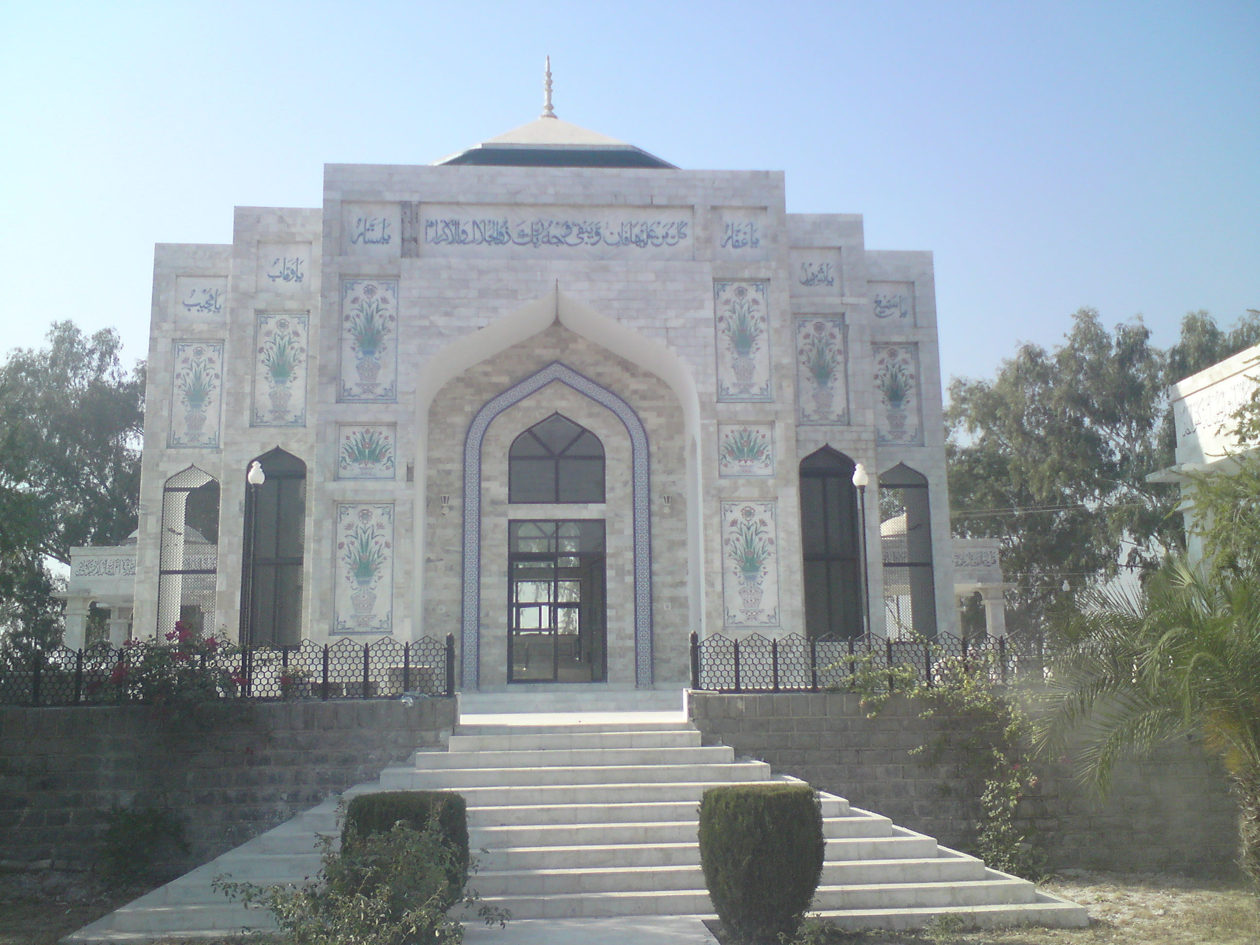 Tomb of Muhammad of Ghor.